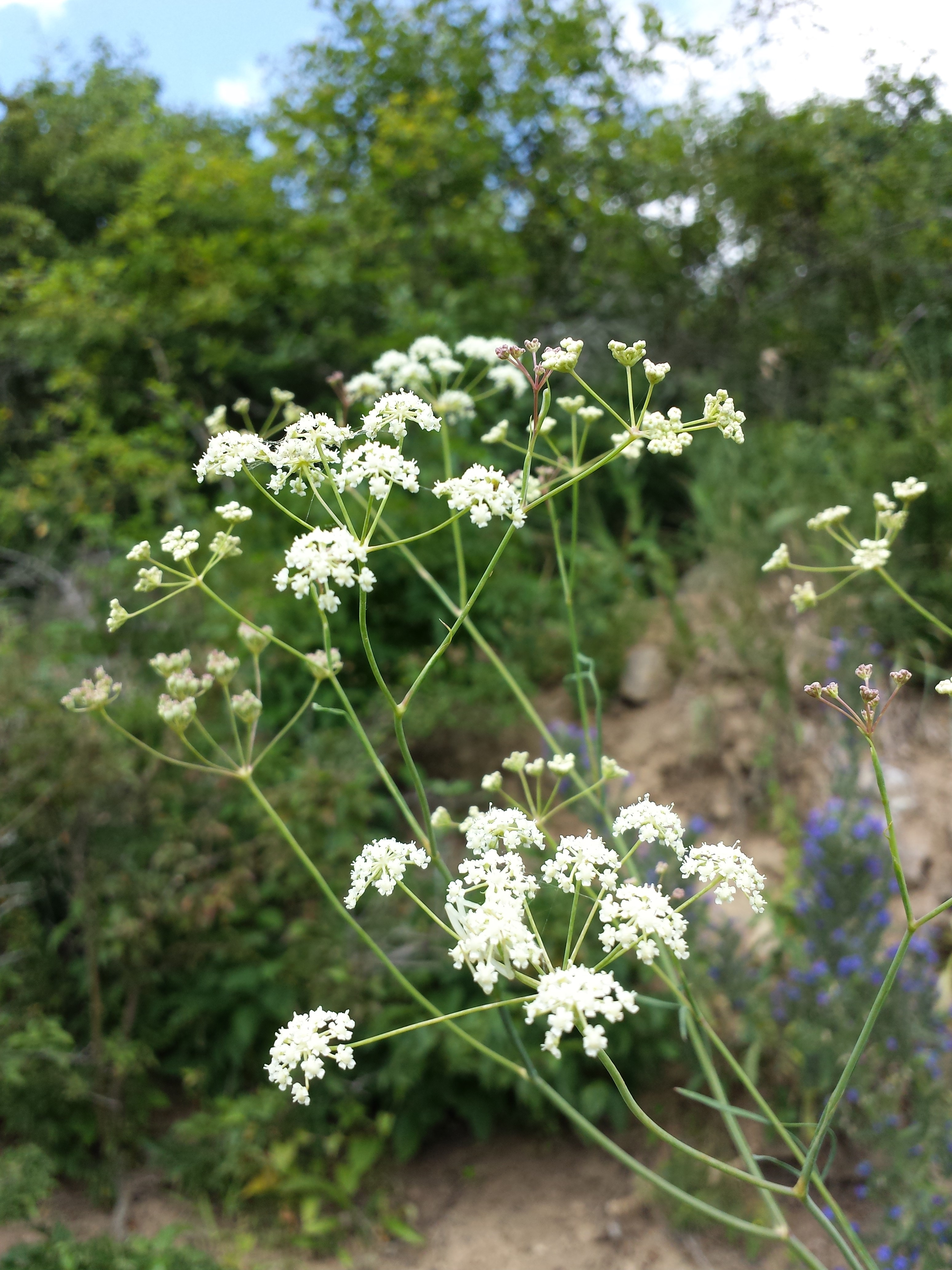 Florescence Taxon: Seseli osseum (sensu Fischer et al. EfÖLS 2008) Location: Heiligenstein near Zöbing, district Krems, Lower Austria - ca. 375 m a.s.l. Habitat: rocky slope beside travel way